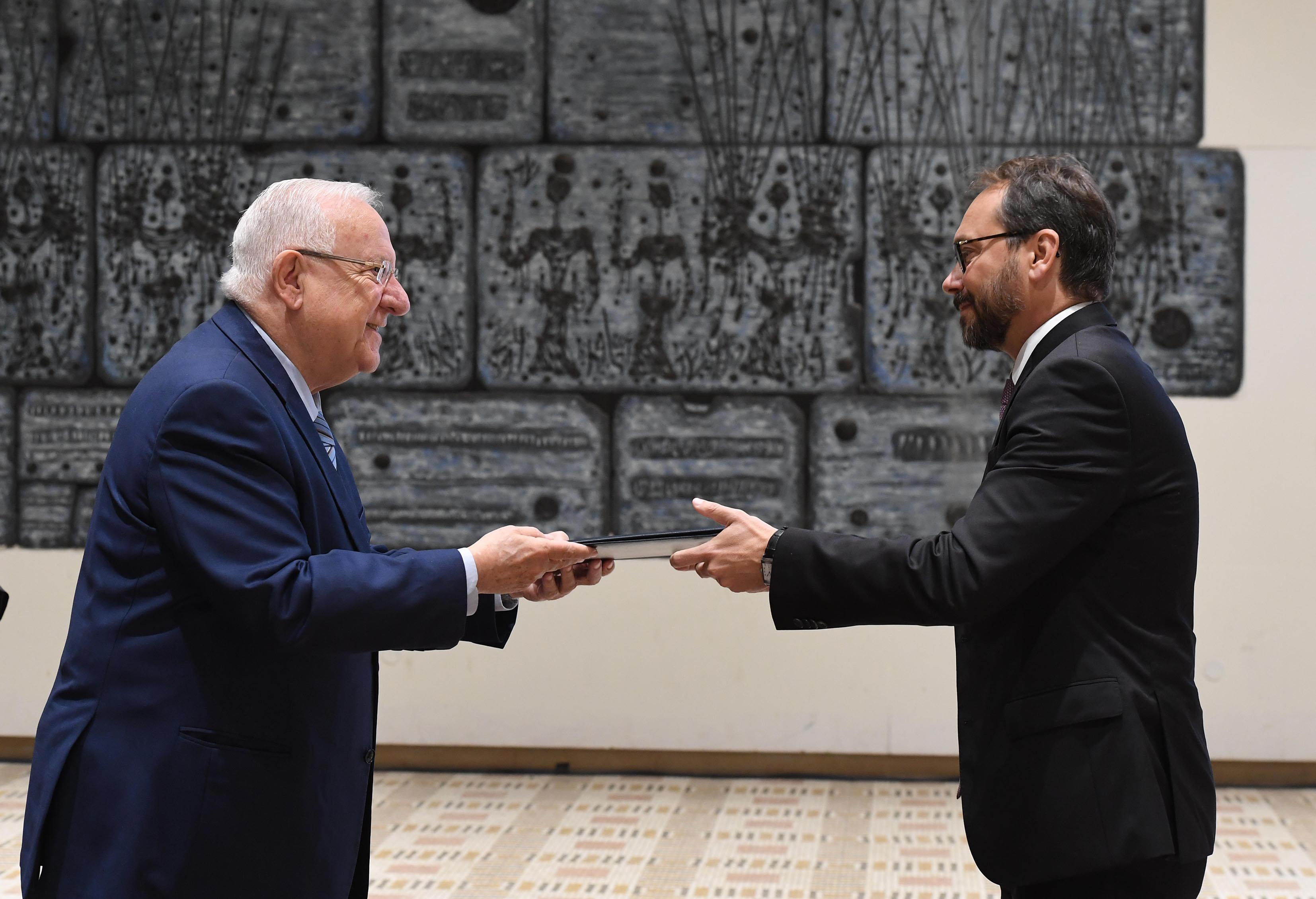 Reuven Rivlin receives the credential of the new ambassador from the European Union, October 2017 The President of the State of Israel, Reuven Rivlin, receives the credentials of the new ambassadors from Italy, Denmark, the European Union and Nigeria - upon their entry as ambassadors of their respective countries in Israel and afterwards met with the Romanian Foreign Minister who visited Israel. Monday, Tuesday, October 23, 2017.